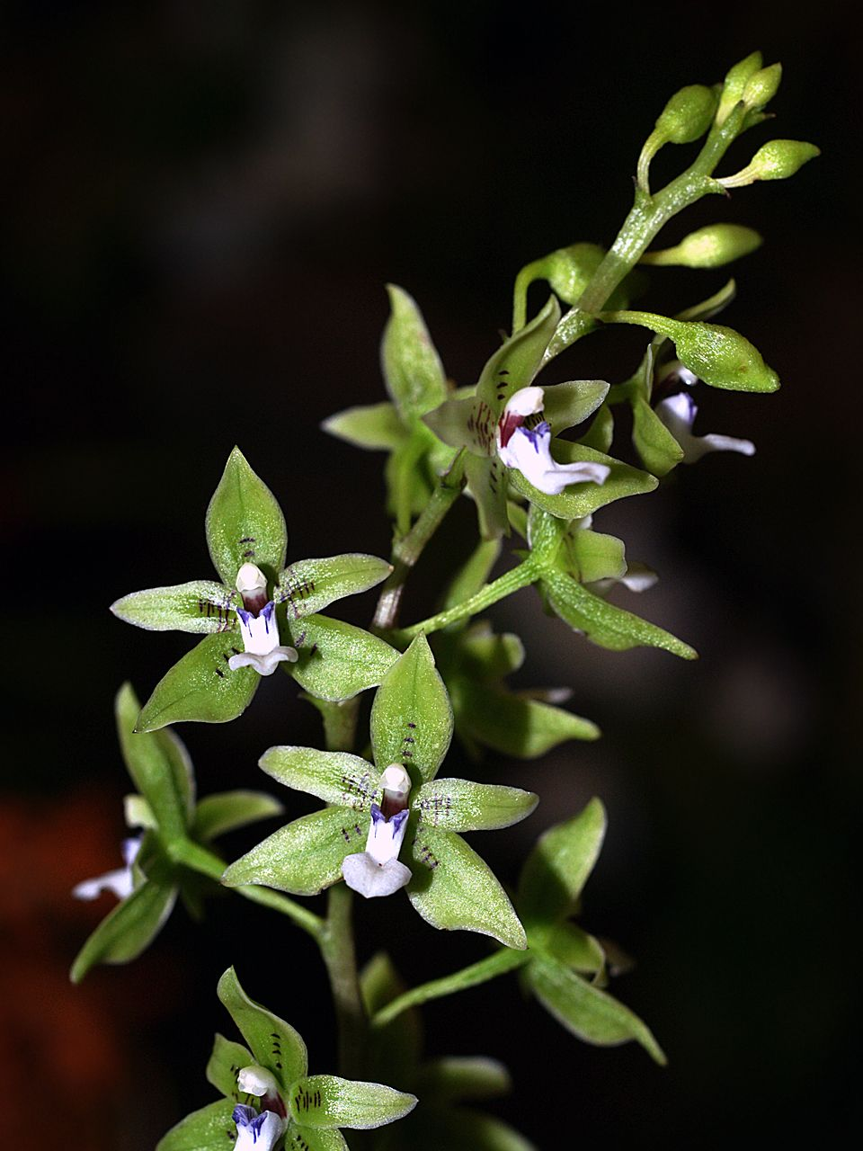 Paradisanthus micranthus